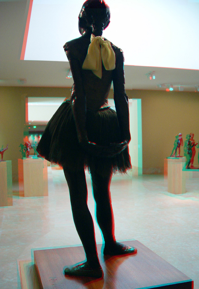 little dancer of fourteen years was started in 1865 and completed in 1870. Everyone wanted one but some couldn't afford one.